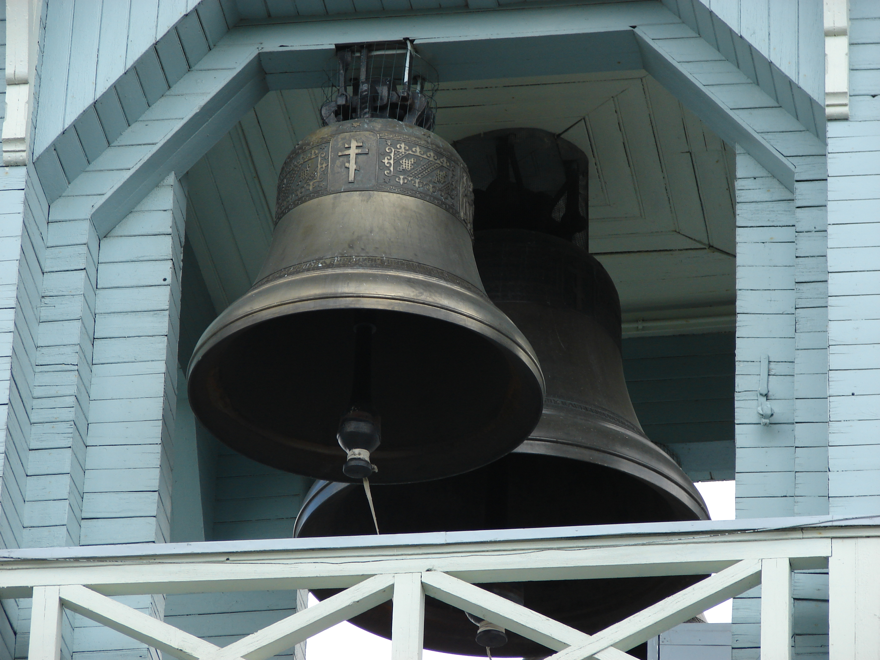 Bells of Rēzekne Saint Nicholas Old Believers Prayer HouseLatviešu: Rēzeknes Sv. Nikolaja vecticībnieku lūgšanu nams (1895.), J.Siņicina iela 4, Rēzekne